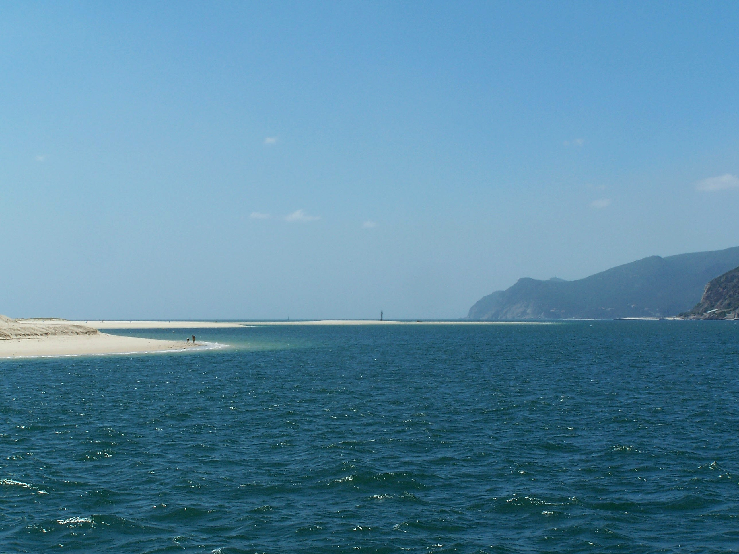 The Sado River is a river in Southern Portugal, and is one of the major rivers in the country. It flows in a South/North direction through 175 km from its springs in the Caldeirão hills before entering the Atlantic Ocean in an estuary in the city of Setúbal. Setúbal is a city and a municipality in Portugal with a total area of 172.0 km² and a total population of 118,696 inhabitants in the municipality. The city proper has 89,303[1] inhabitants. The municipality is composed of 8 parishes, and is located in the district of Setúbal.